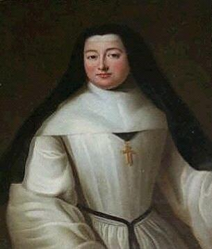 Louise Françoise de Rochechouart, abbess of Fontevraud Abbey from 1704 to 1742